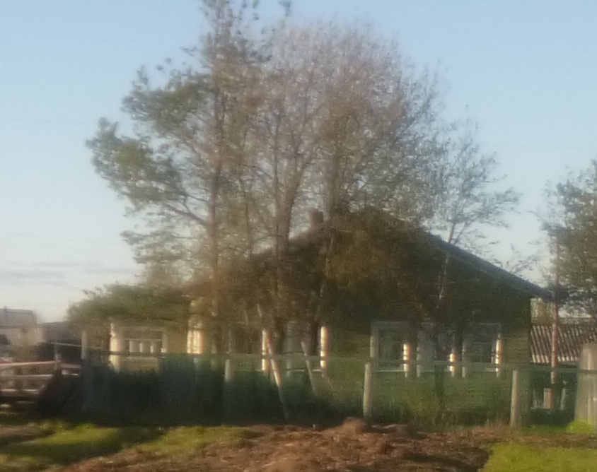 Дом, в котором проживал Иерей Палладий (Попов) с супругой